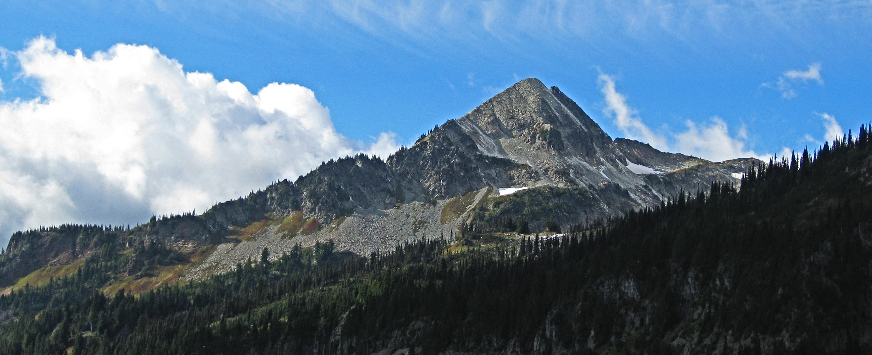 Pyramid Peak while descending from Mildred Point